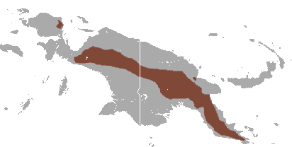 Striped Bandicoot (Microperoryctes longicauda) range